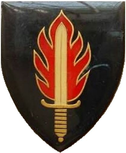 SADF 11 Commando emblem